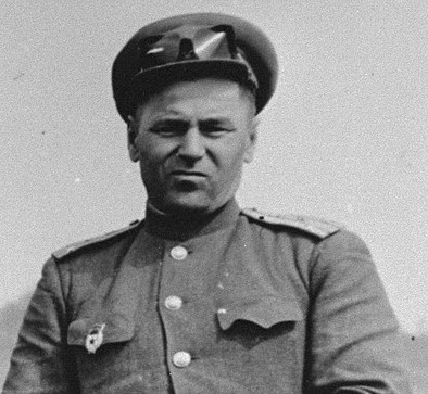 American and Soviet generals pose on the banks of the Elbe River near Torgau, Germany, where the two Allies linked up for the first time. Pictured from left to right are Brig. Gen. Charles G. Helmick (Commander of V Corps Artillery), Maj. Gen. Clarence R. Huebner (CG V Corps, First U.S. Army), Lt. Gen. Gleb Baklanov (Commanding General Soviet 34th Rifle Corps), and Maj. Gen. Vladimir Rusakov (Commanding General Soviet 58th Guards Rifle Division).